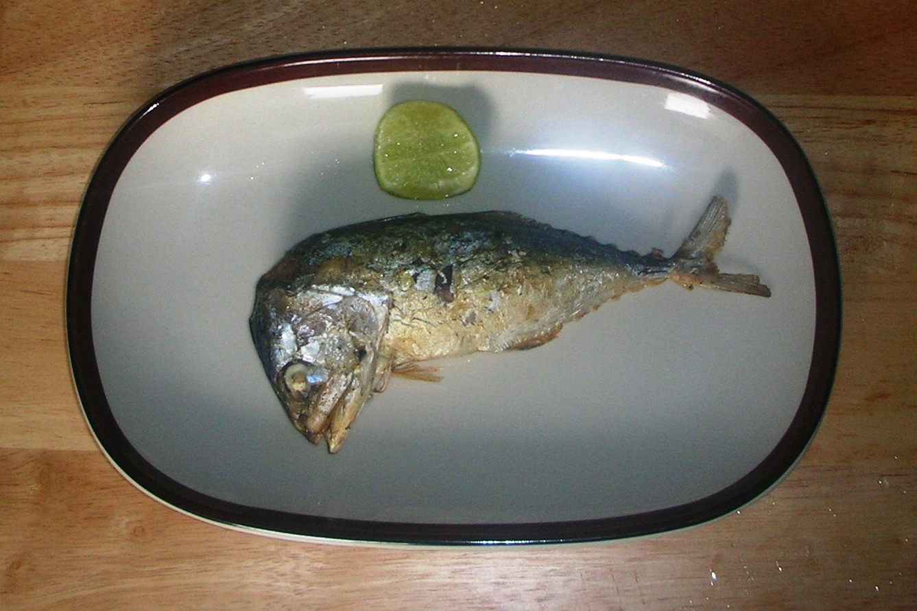 Pla thu, Rastrelliger brachysoma, ready to eat